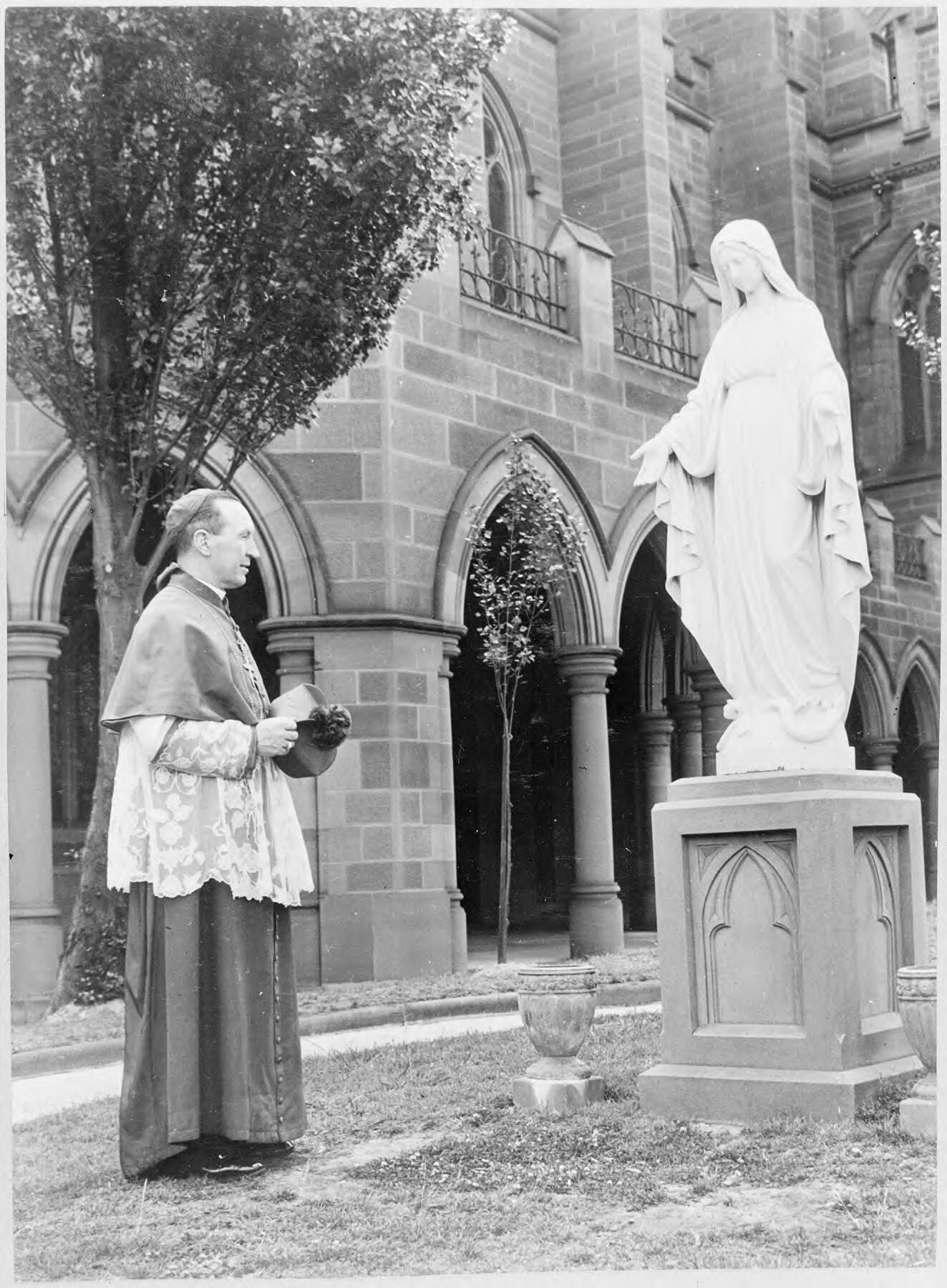 Cardinal Norman Thomas Gilroy standing near a statue of the Virgin Mary outside St Mary's Cathedral, Sydney, New South Wales, ca. 1955